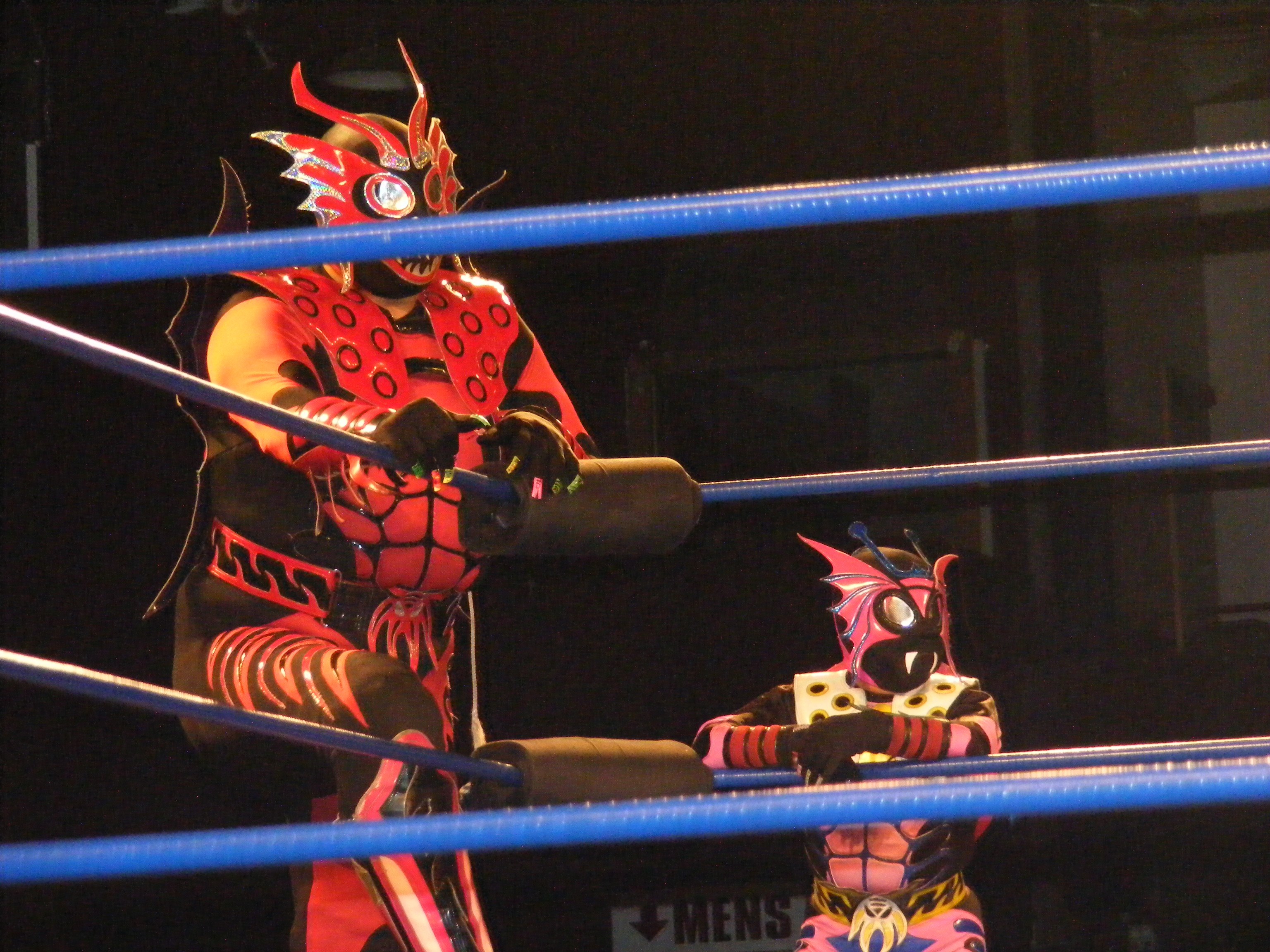 Professional wrestlers El Alebrije and Cuije at a Chikara event on April 23, 2010